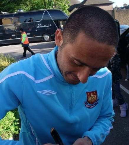 David Di Michele